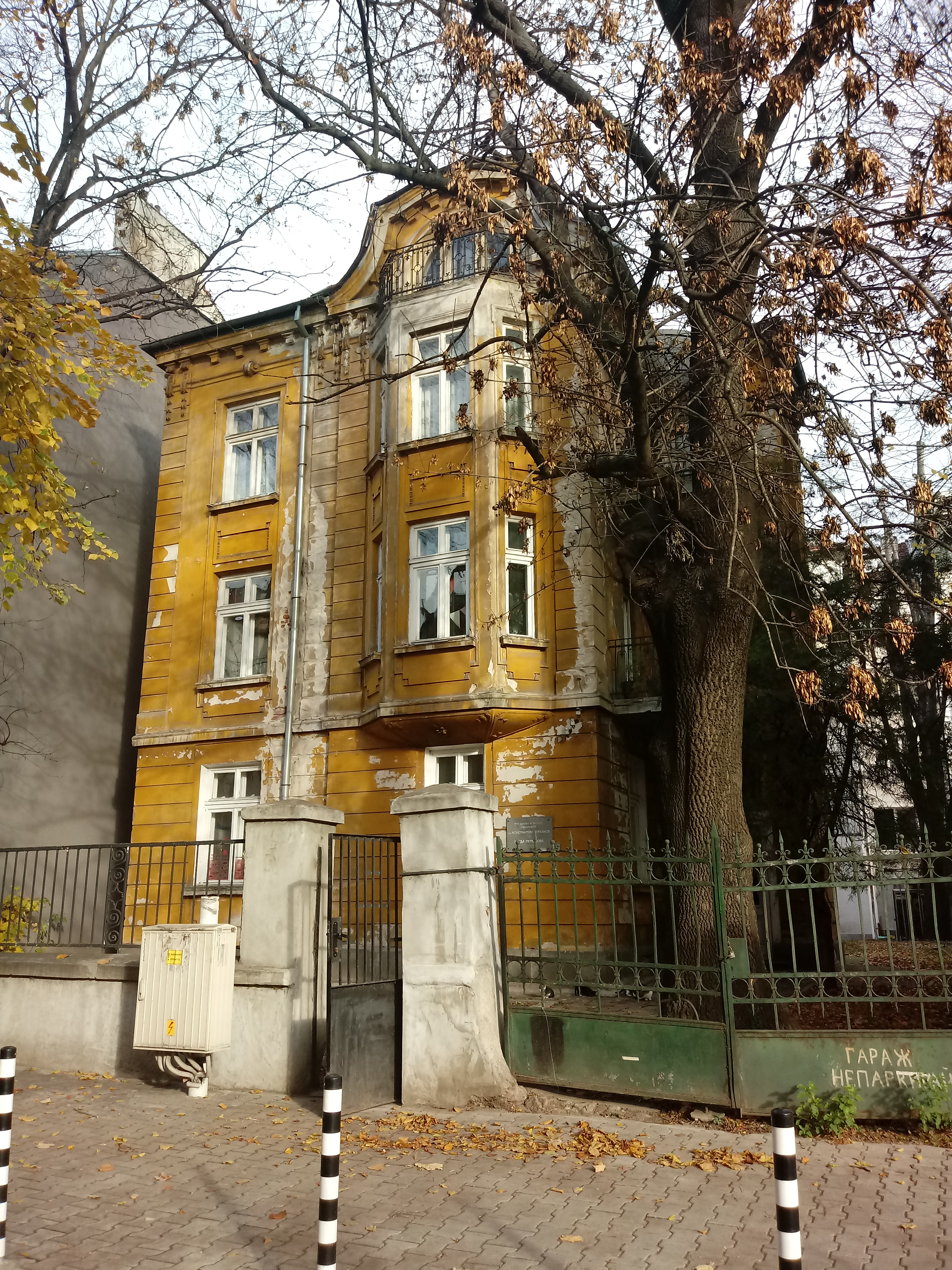 Konstantin Petkanov, Magda Petkanova home with memorial plaque, 13 Gerlovo str., Sofia